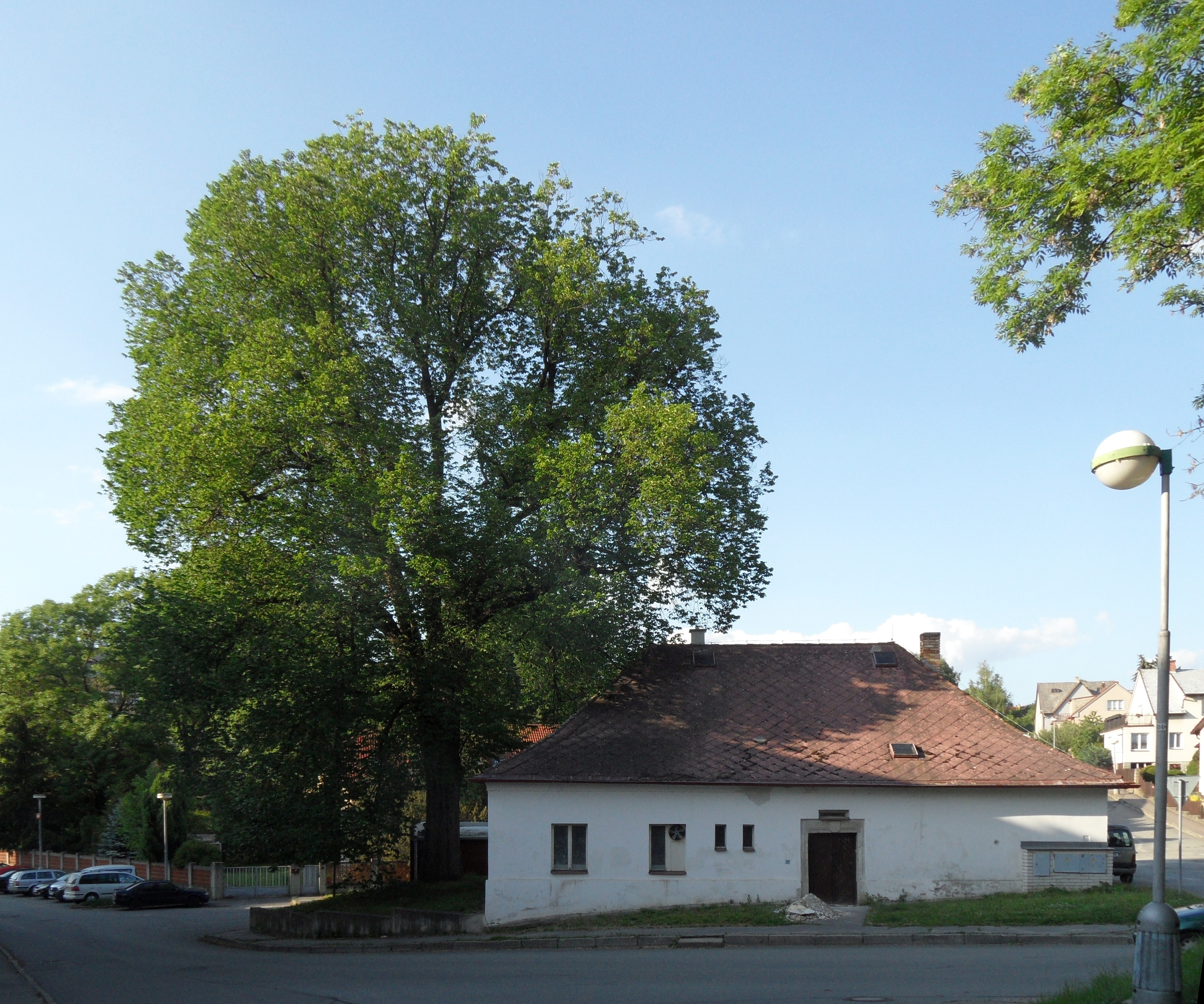 Pelhřimov, Famous tree Ulmus glabra, near crossroads of Fibichova x Řemenovská. Overview from South. Pelhřimov, the Czech Republic.